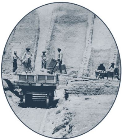 Workers shoveling guano onto a cart